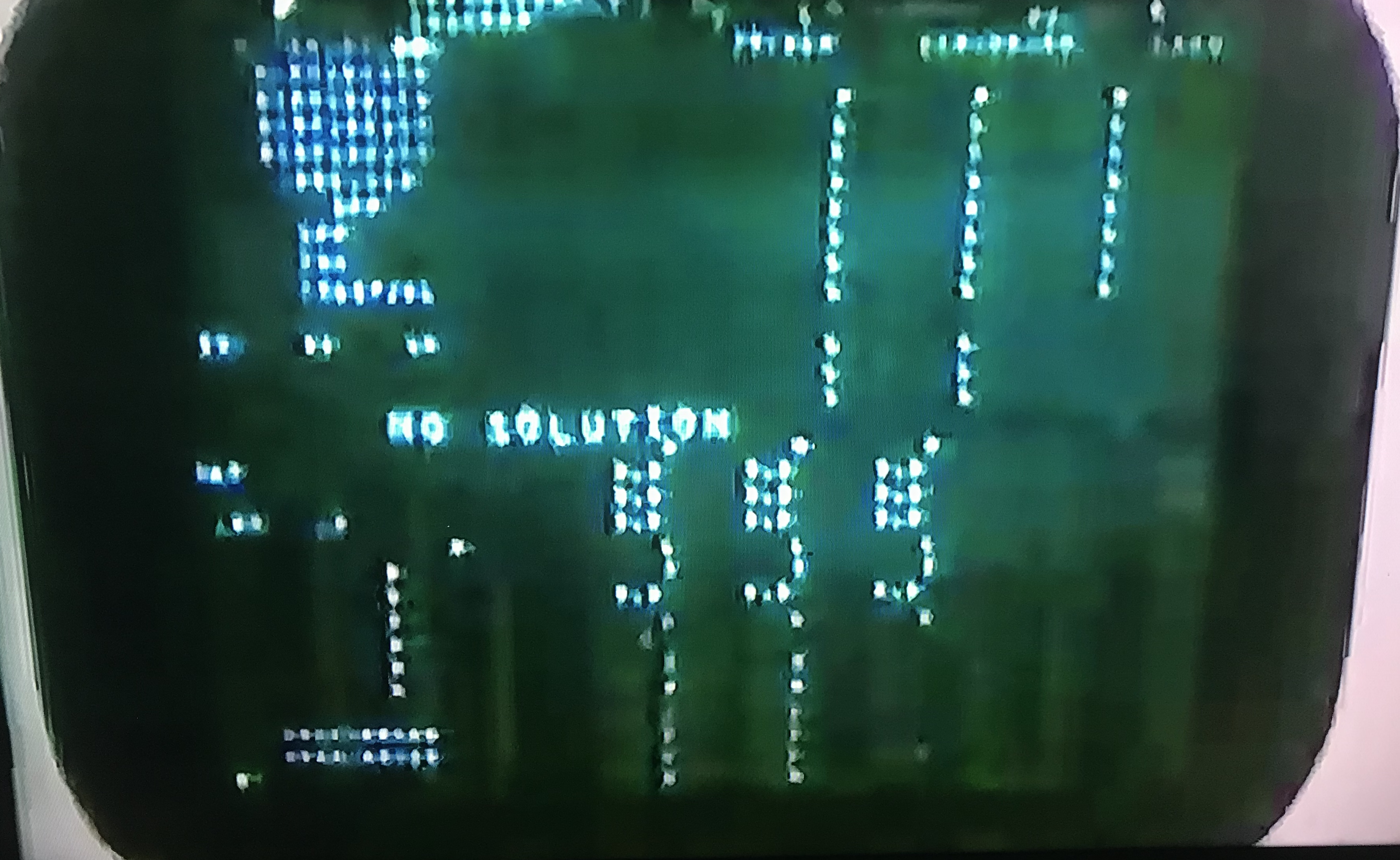 Apolli XII Launch temporary failure computer screen signaling all system off line